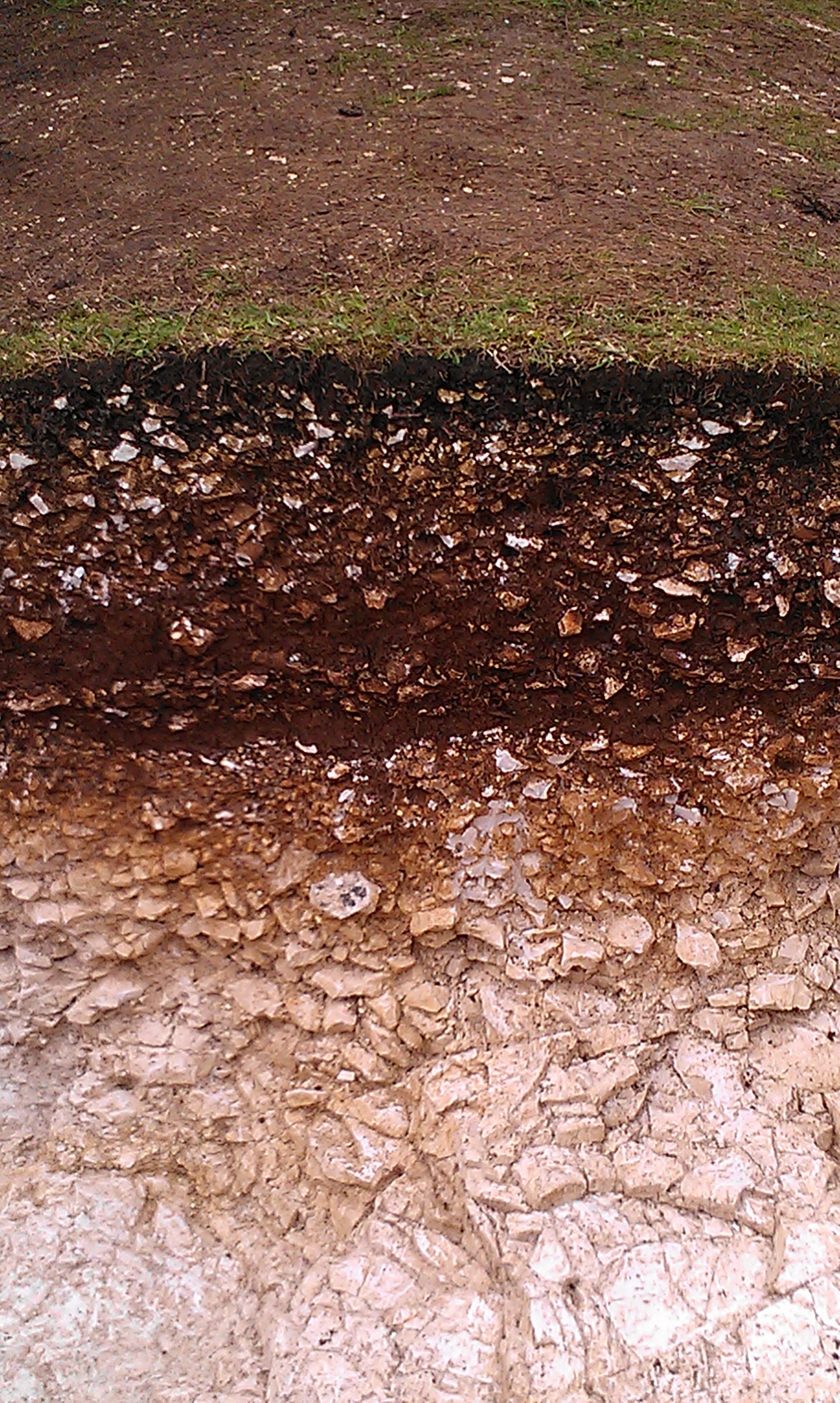 A clear example of archaeological stratigraphy from the excavations at Goosehill Camp in West Sussex.